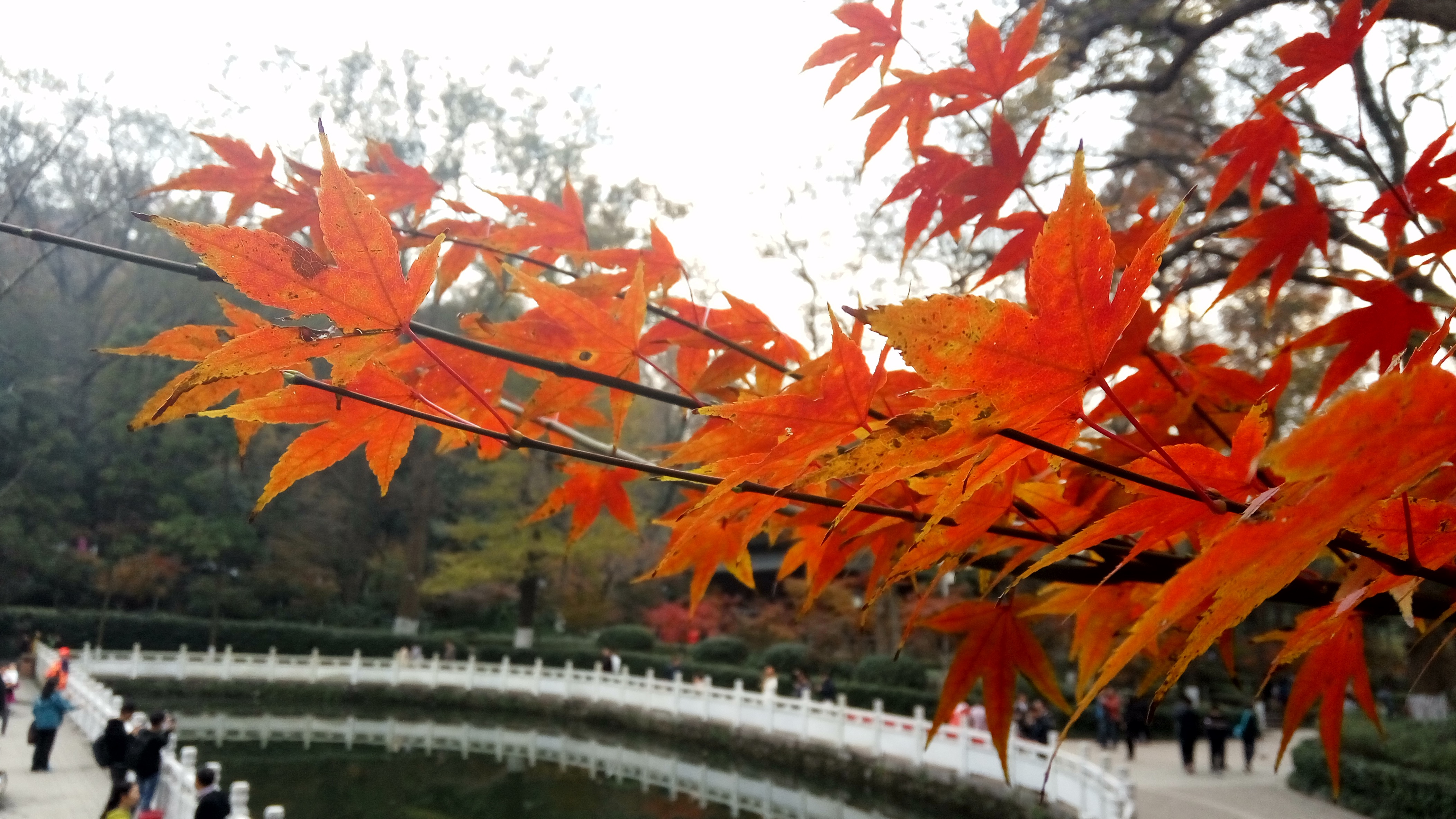 Autumn maple leaves in Qixia Mountain Temple in Nanjing, China